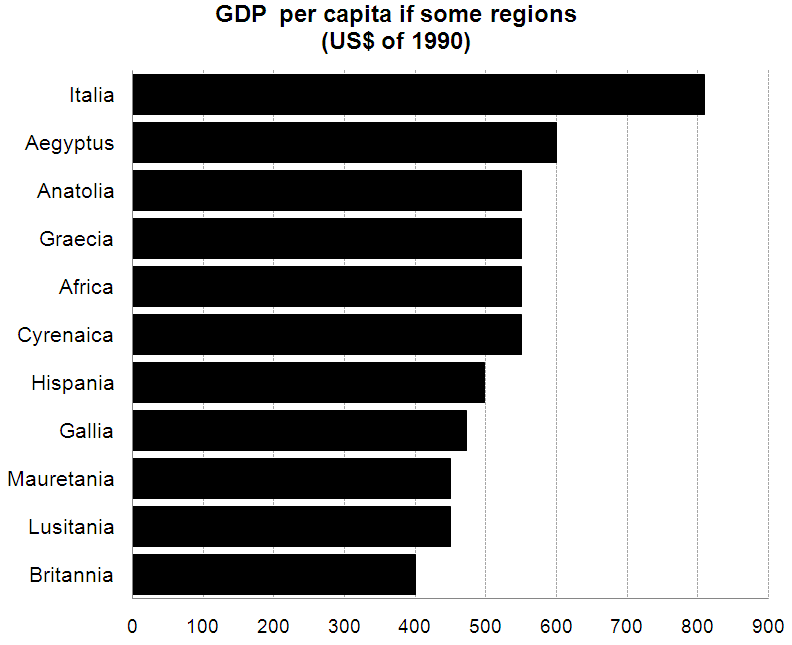 GDP per capita in some regions of Empire, estimation for 1 AD, source: World Population, GDP and Per Capita GDP, 1-2010 AD